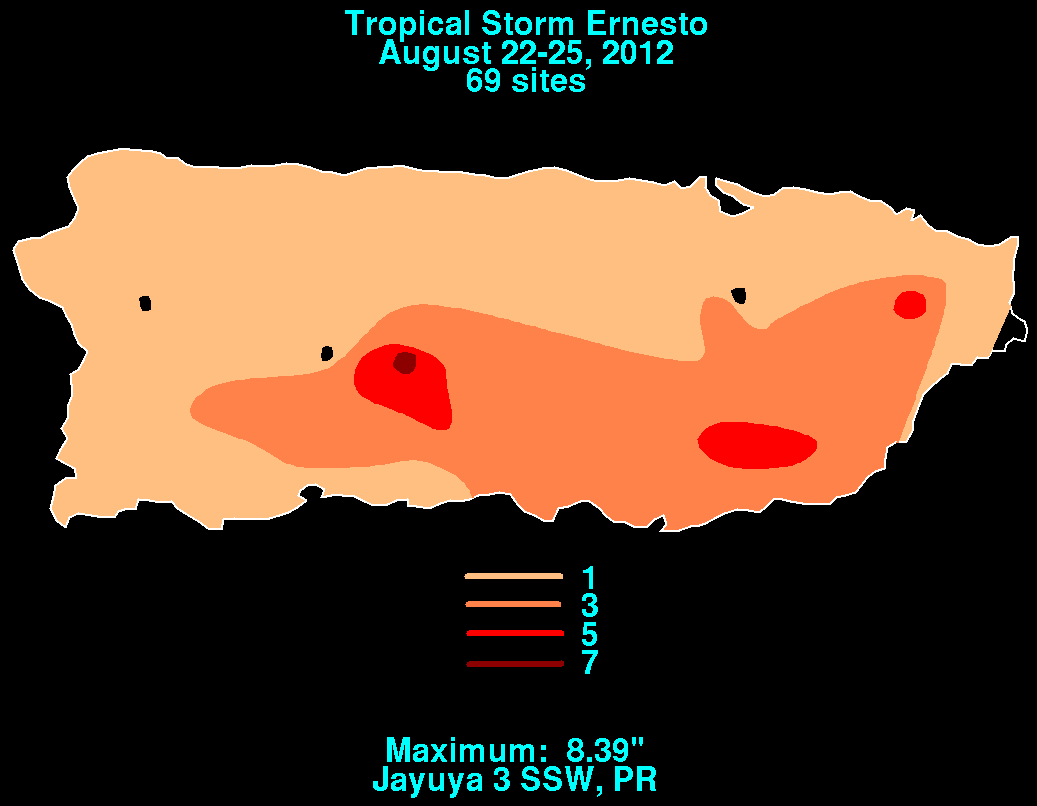 Rainfall produced by Hurricane Ernesto during August 2012.